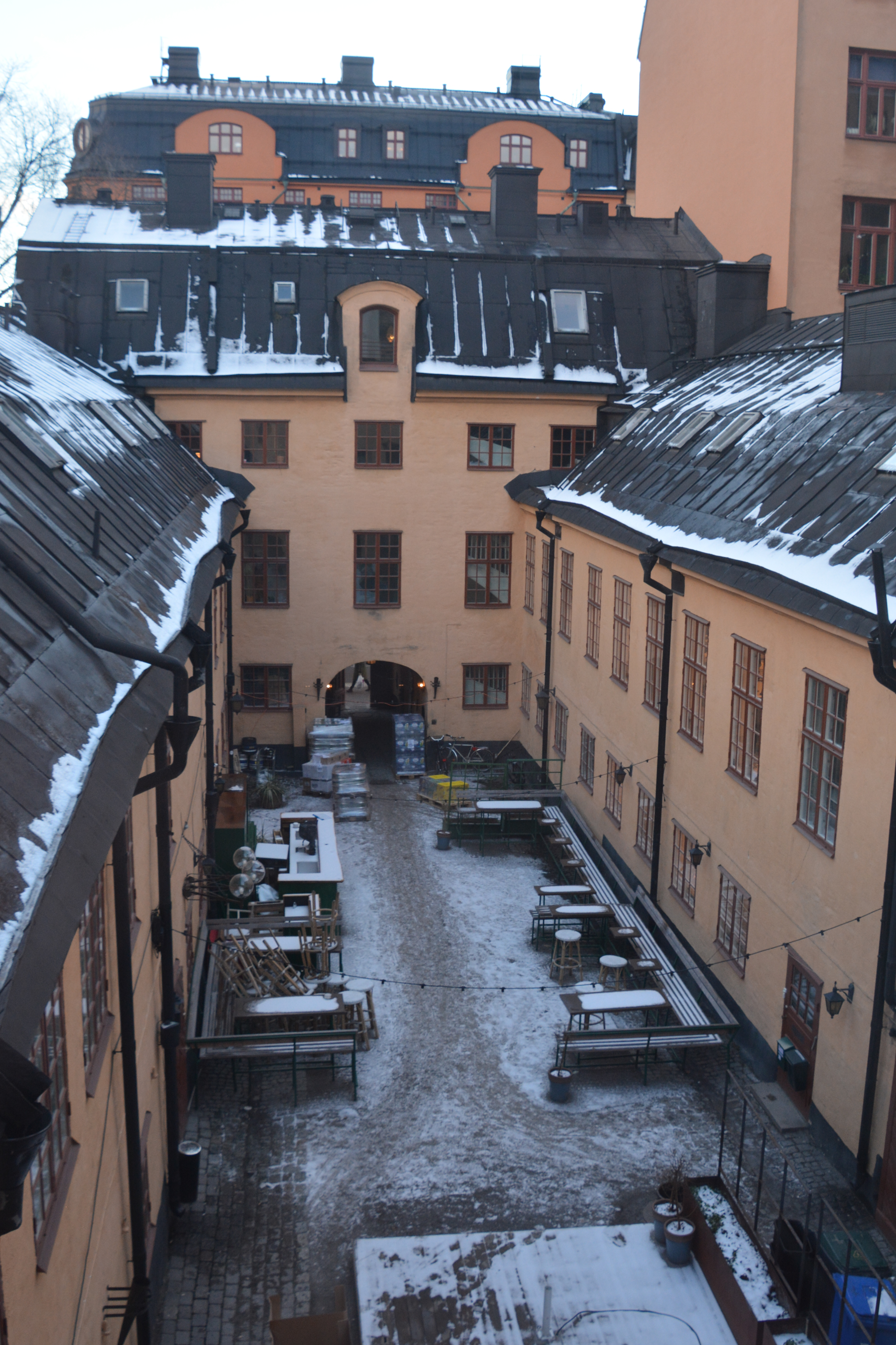 Bysis, Hornsgatan 82 i Stockholm, gårdsidan